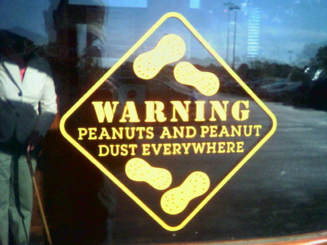 A peanut allergy warning sign